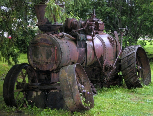 Wrecked steam tractor.